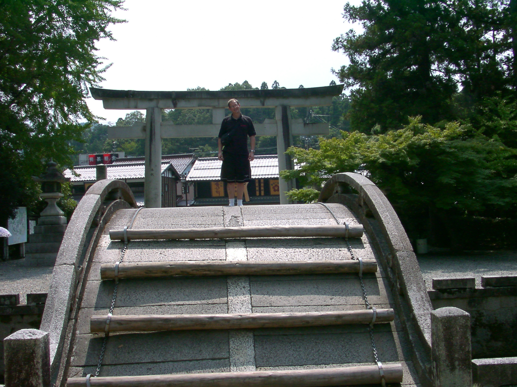 Stone Bridge (Bryan E. Hall atop)